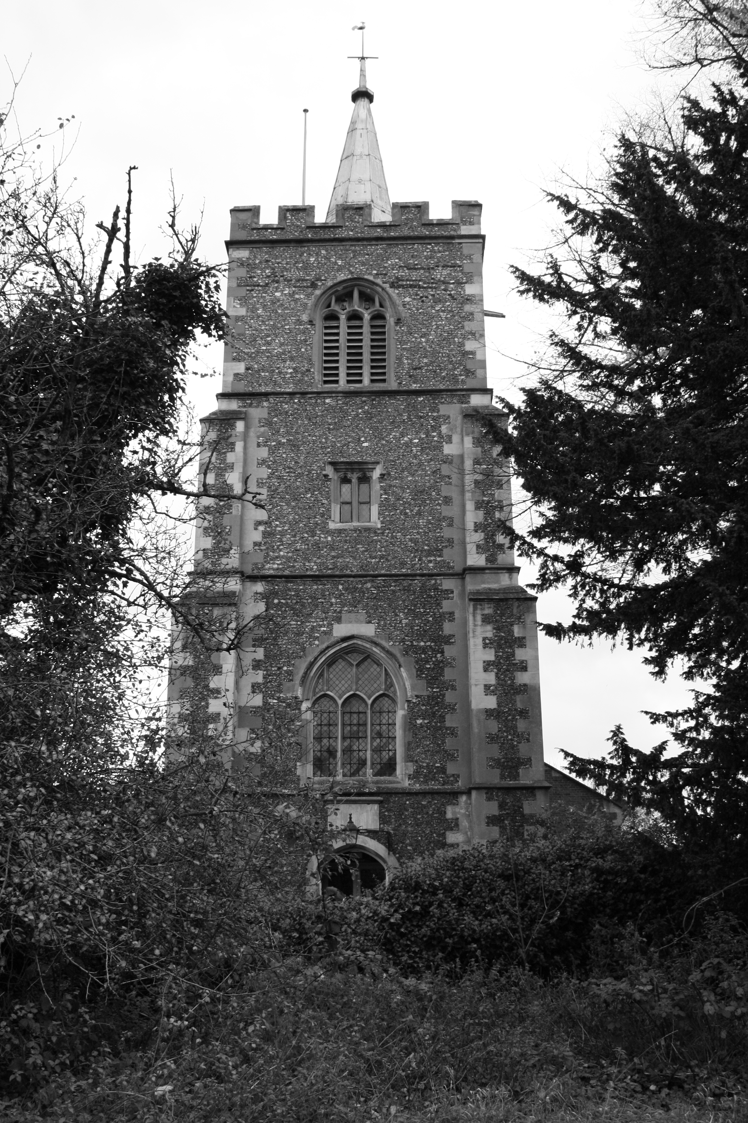 Parish church shared by Anglican and Methodist worshippers with it's Hertfordshire 'spike'